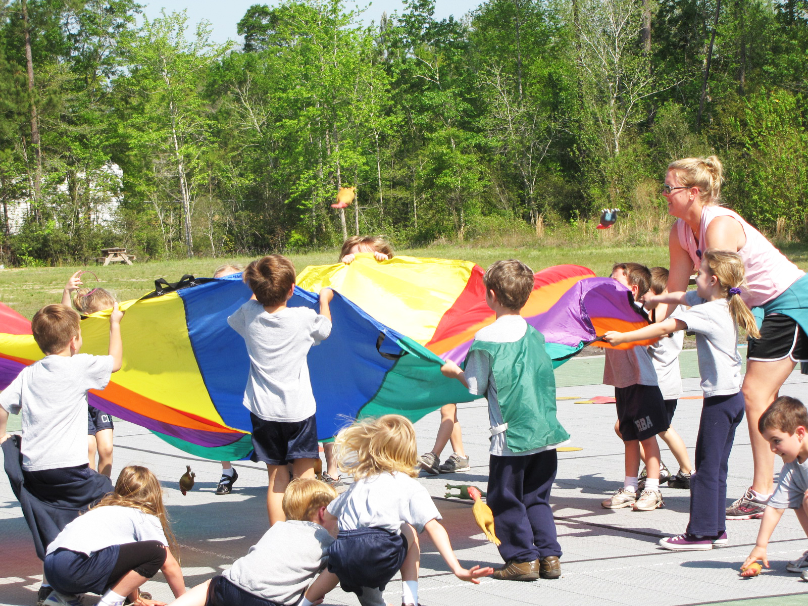 Coach Stacey leads a physical education class for elementary students at Charter Day School in Leland, NC.